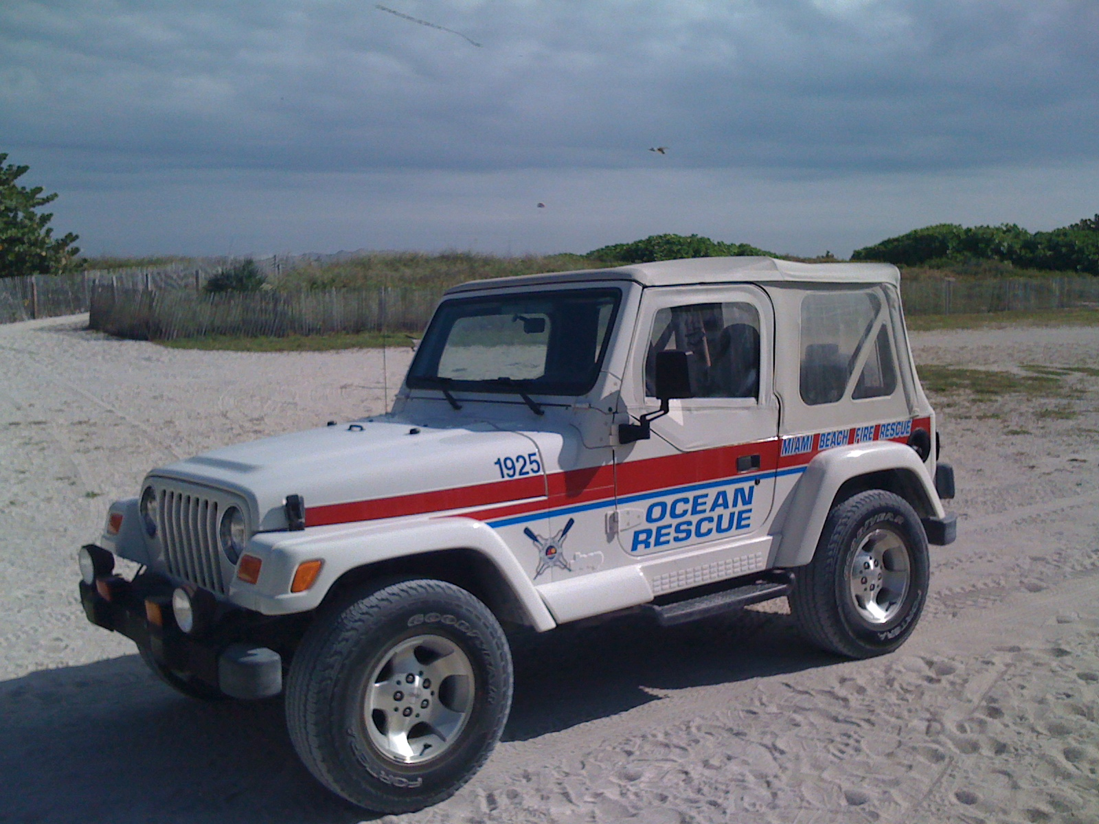 Jeep In Miami Beach, Florida - front view of the Ocean Rescue vehicle on the beach. City of Miami Beach Fire and Rescue Department